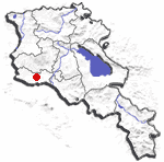 Location map for Armavir, Armenia. Made using Aramgutang's template.